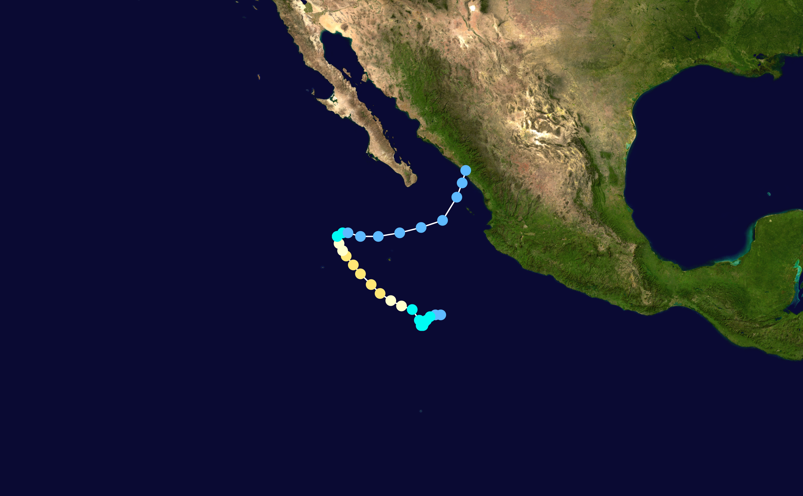 Hurricane Nora (2003) track. Uses the color scheme from the Saffir-Simpson Hurricane Scale.